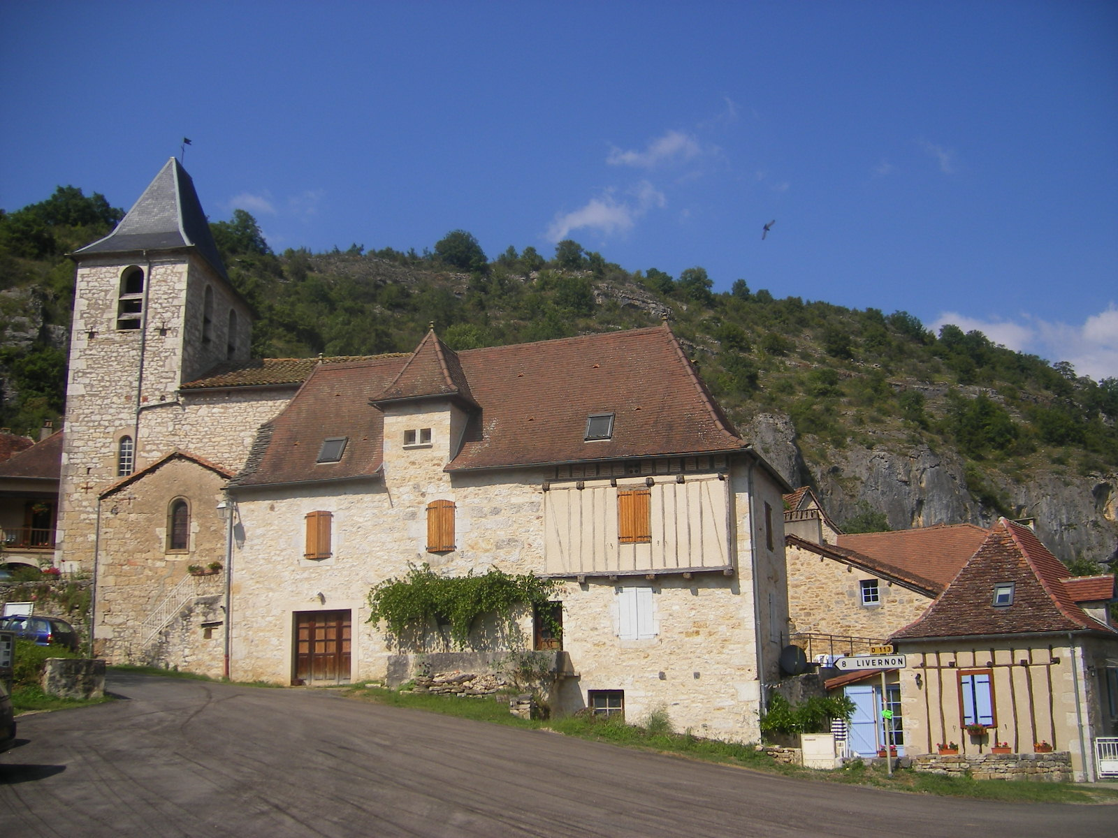 Corn